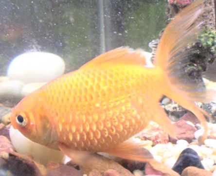 Goldfish with Hydropsy.